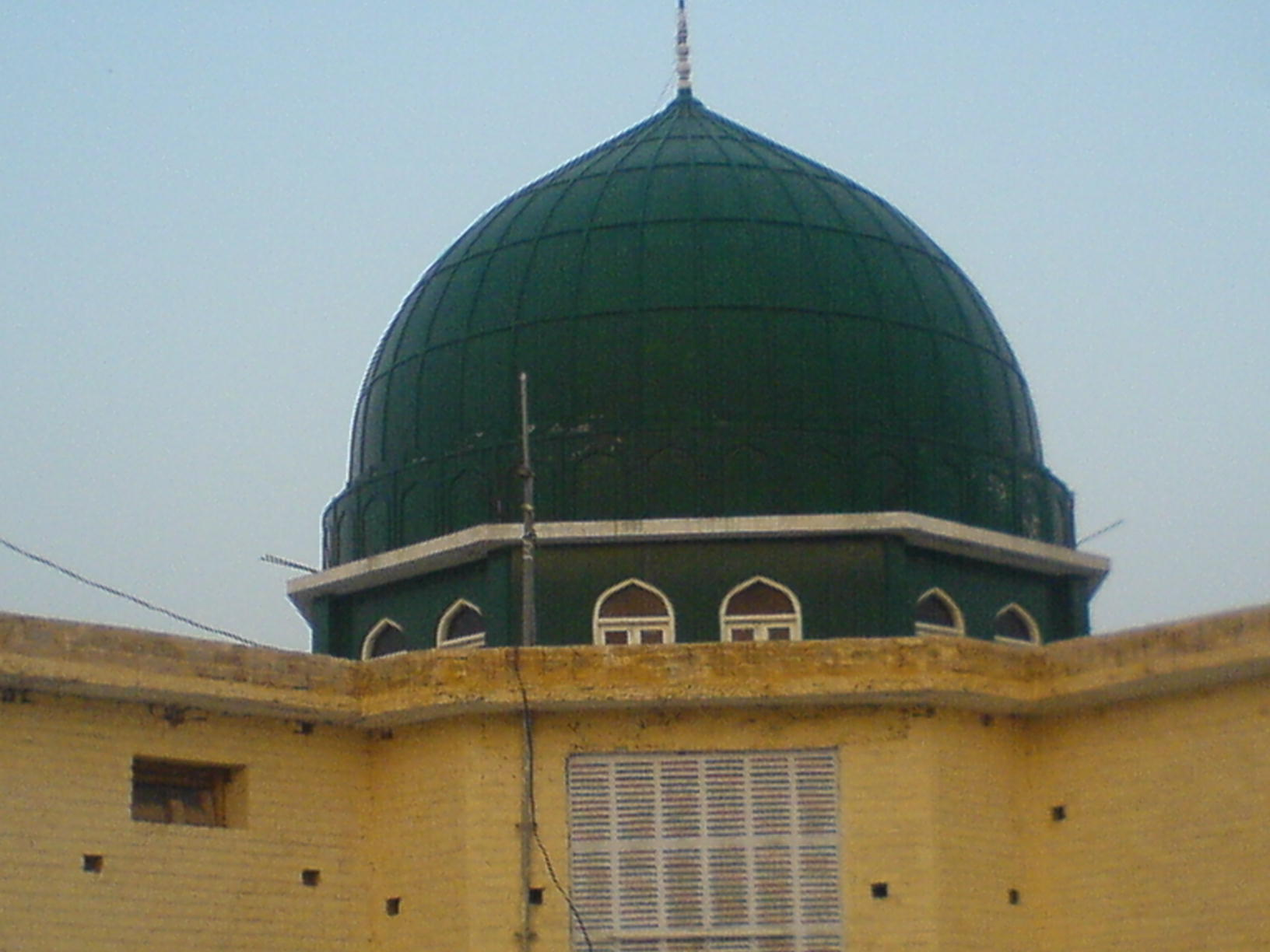 Tomb of Hazrat Pir Irani at Mustafaiya Shareef "Shadi Shaheed" Khairpur Mirs, Sindh, Pakistan.